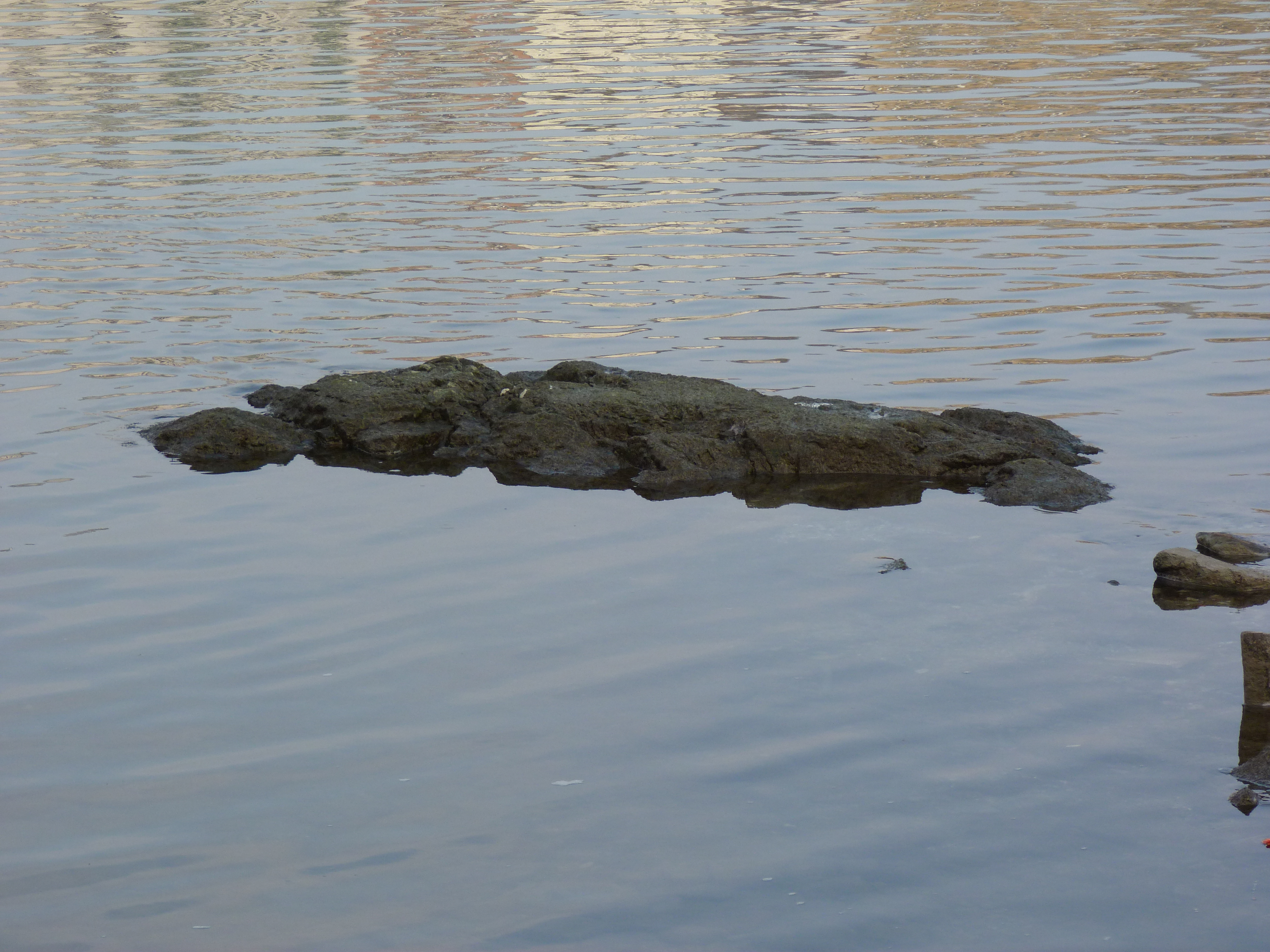 Hunger-rock Live at Budapest, on the 23rd of November, 2011. A rock – usually covered with water – in the Danube. At the foot of the Gellért-hill. When you see it, hunger and misery is to come in the next year. Published under Creative Commons int he Metapolisz DVD line. Tags: Hunger-rock Ínség-szikla Budapest Gellért-hill Metapolisz